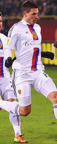 Fabian Schär